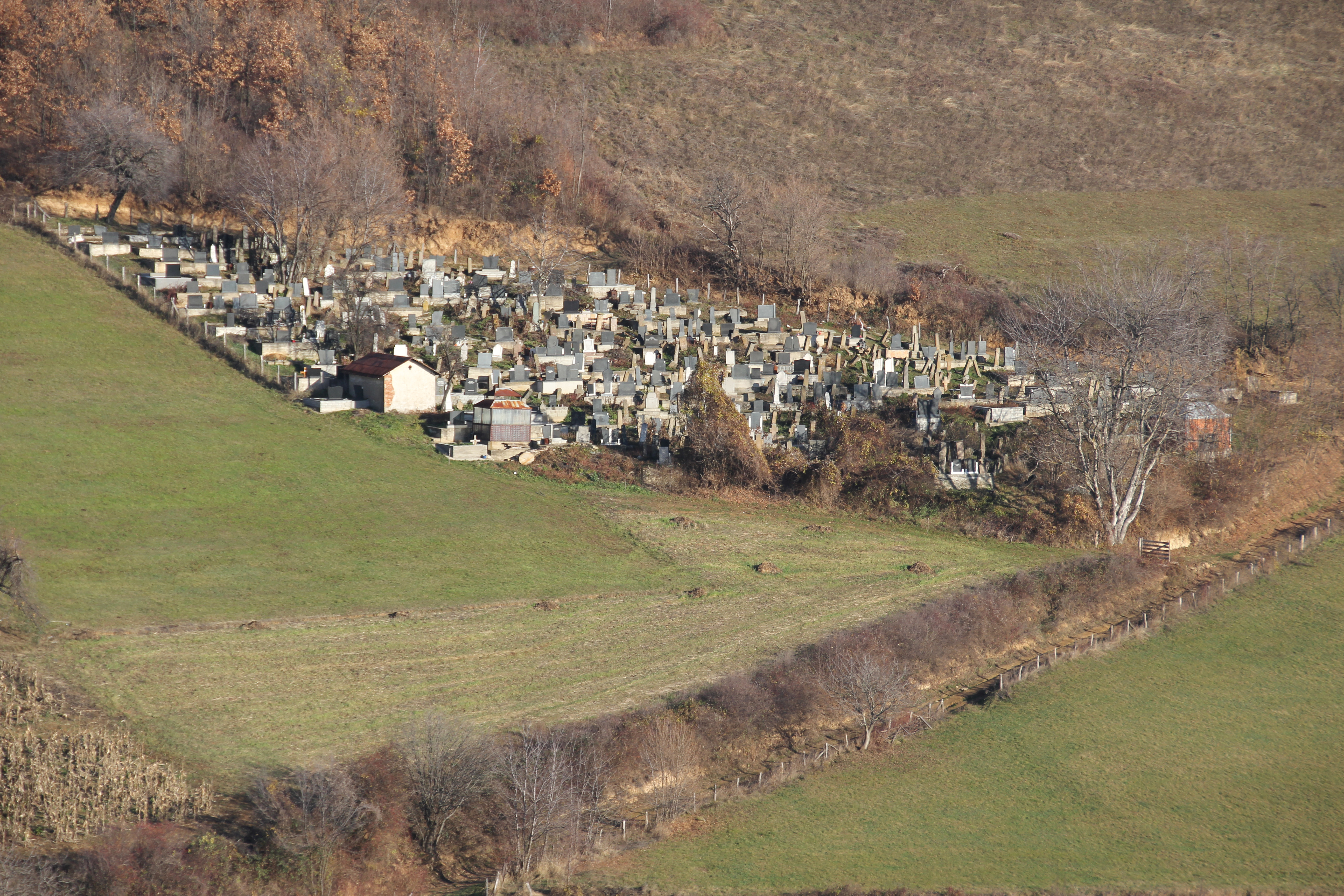 Graveyard in the village of Gornja Grnuca (the municipality of Gornji Milanovac), Serbia.